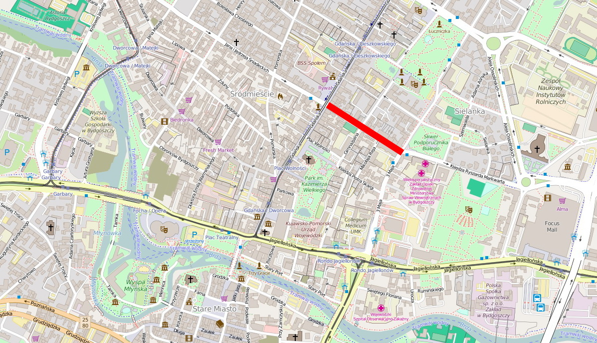 Krasinski street underlined